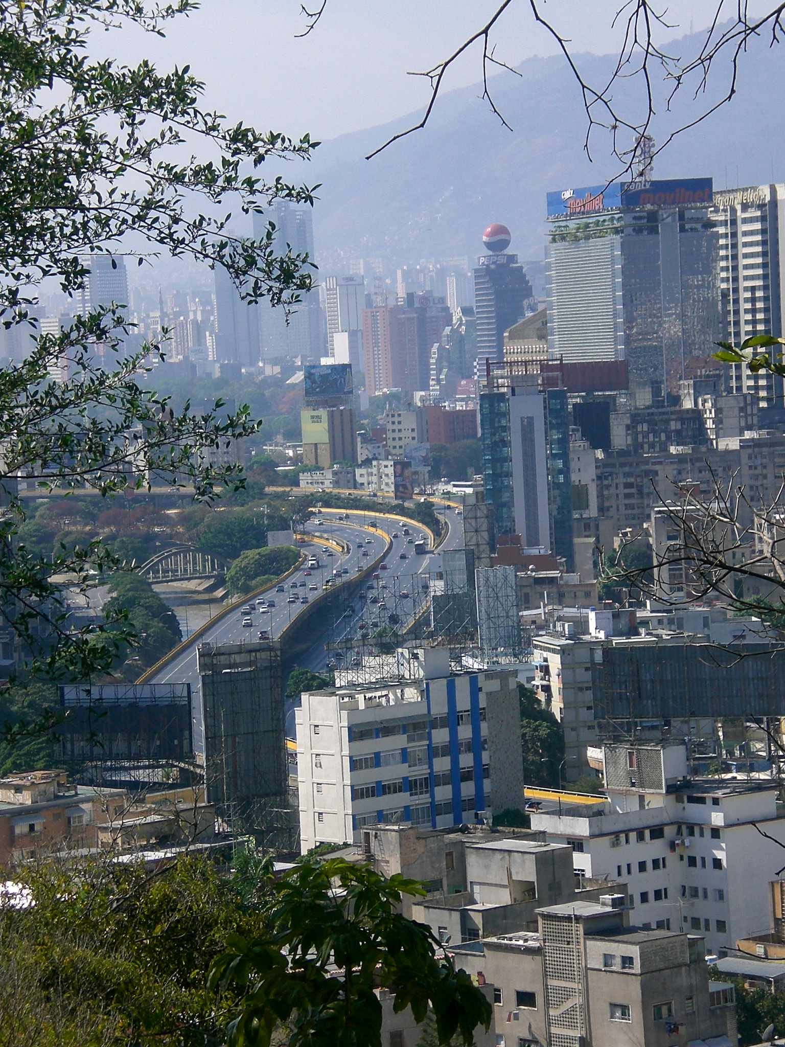 Francisco Fajardo Highway panorama from Chulavista.